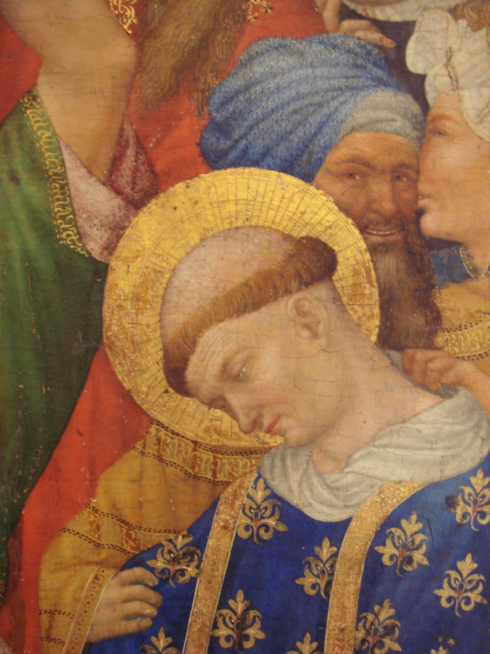 Completed by 1416 for the Carthusian monastery of Champol, Burgundy, France.